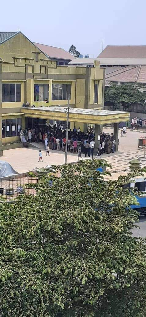 A temporary refugee shelter in Tangerang